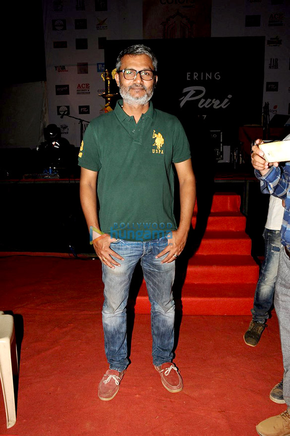 Tiwari at the ‘Khidkiyaan’ movie festival launch